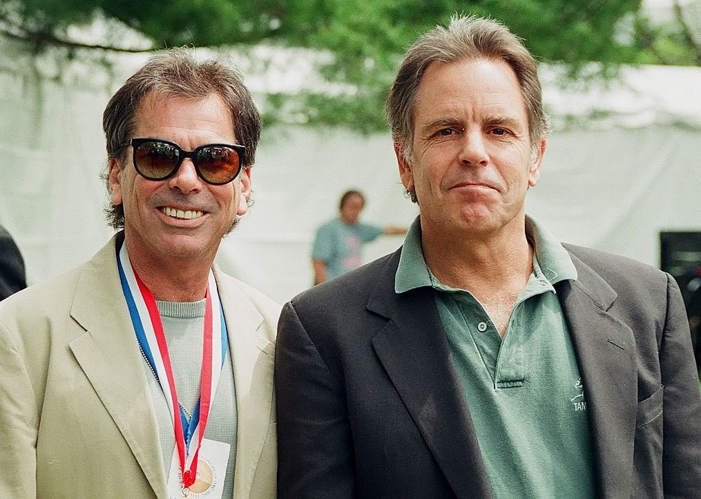 From Library of congress 200th birthday 2000